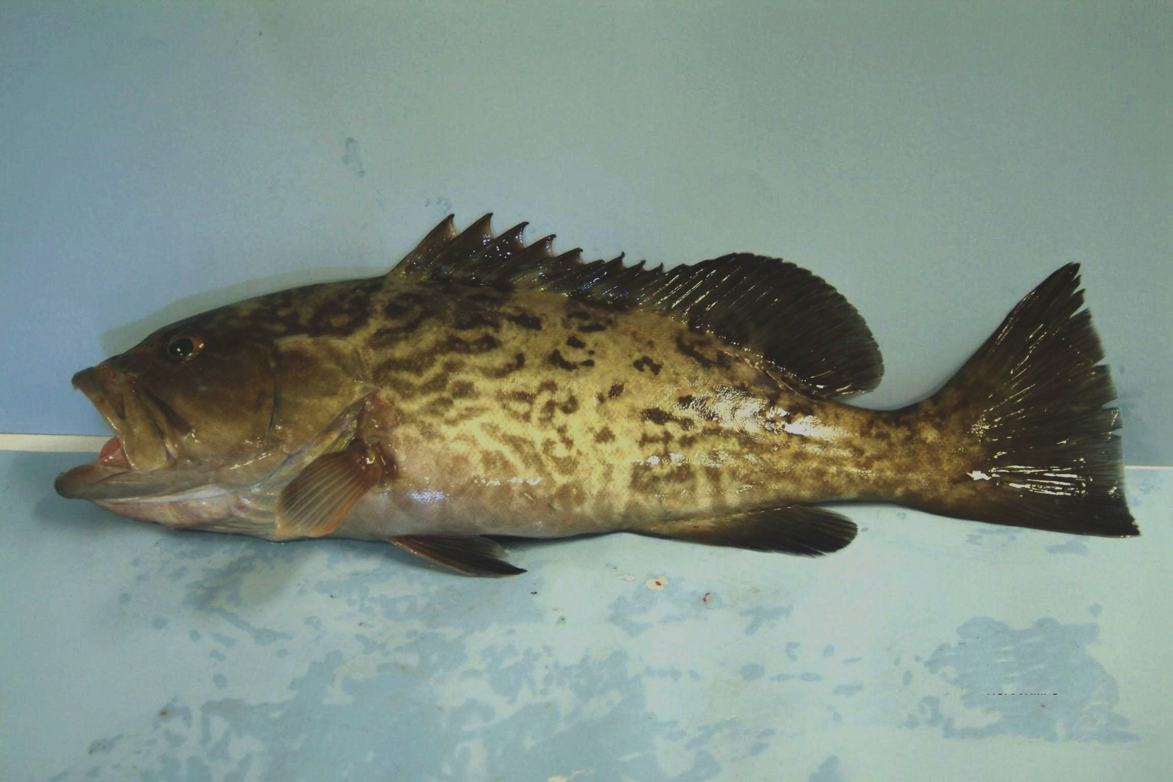 Gag (Mycteroperca microlepis) , a type of grouper. Gulf of Mexico.